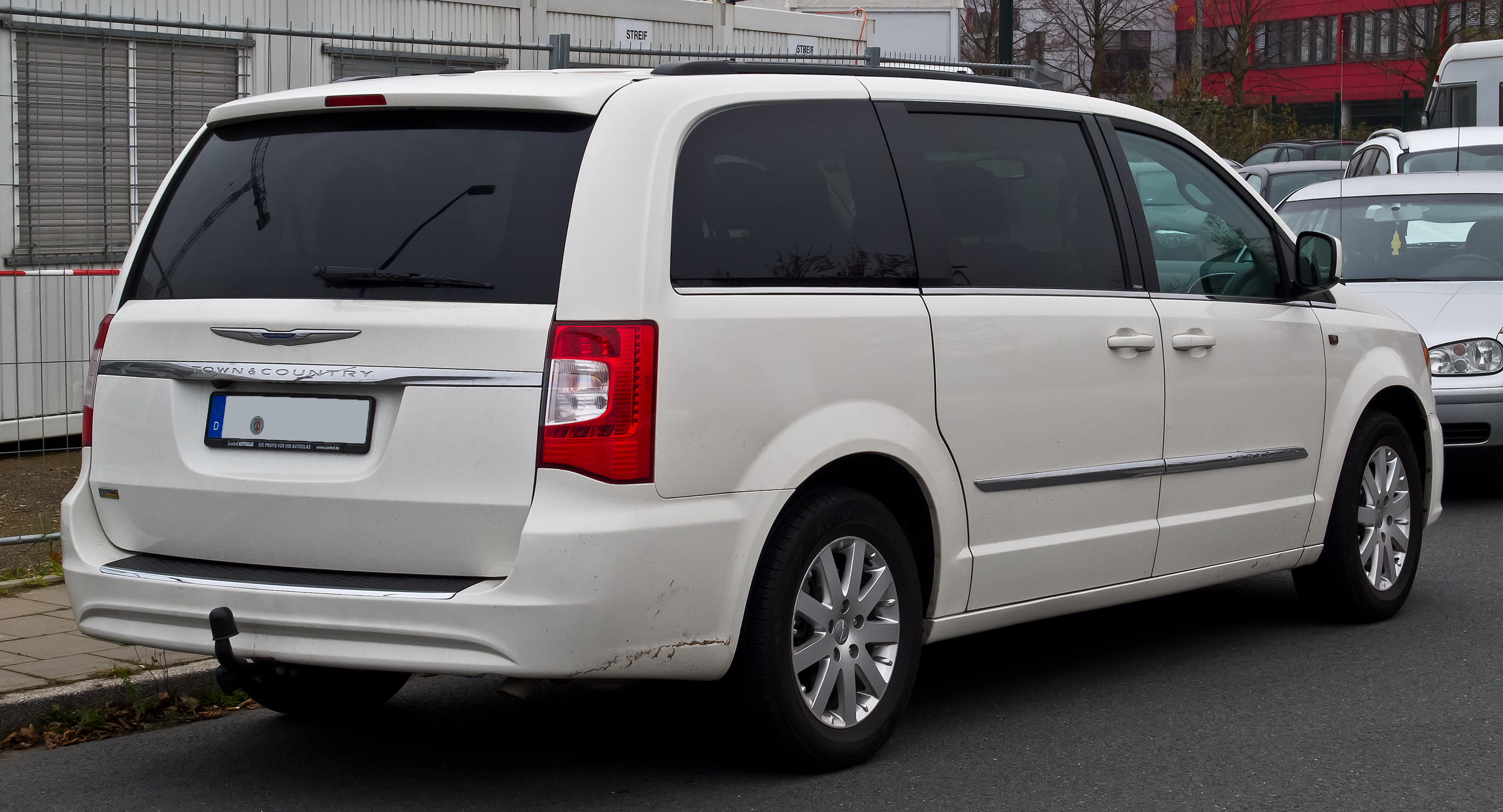 Chrysler Town & Country 3.6 V6 Touring (V, Facelift)